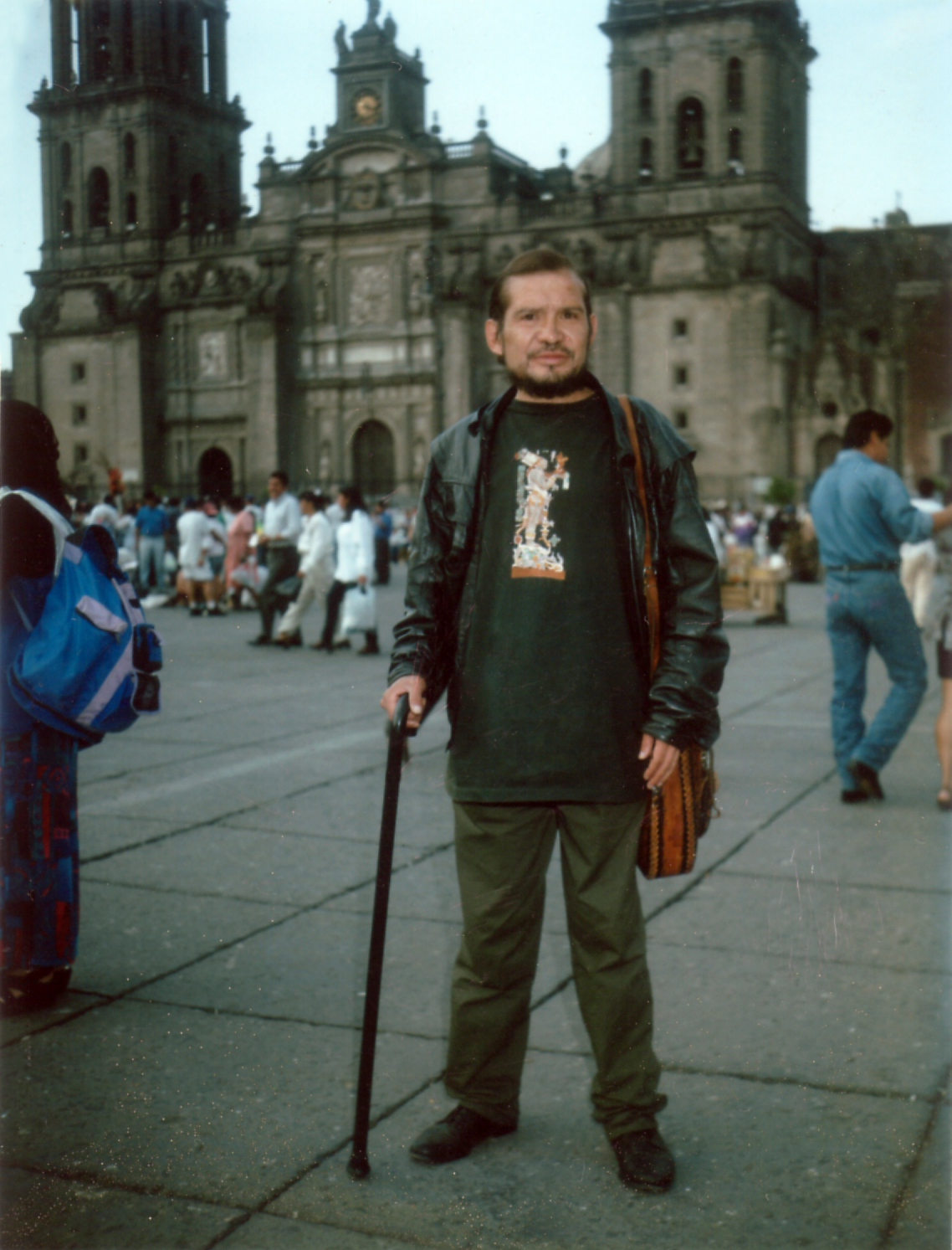 Mario Santiago Papasquiaro (1953-1998), mexican poet. Photo from the familiar archive. Provided and uploaded with permission of Mowgli Zendejas, heir to the rights of Mario Santiago Papasquiaro.